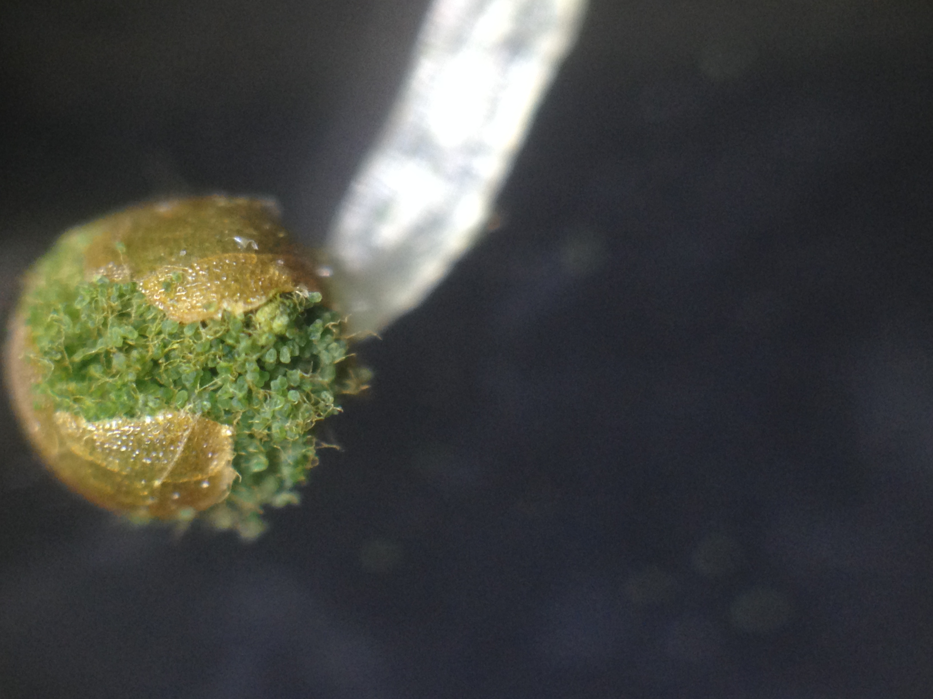 young sporophyte, 1 minute after (forced) opening